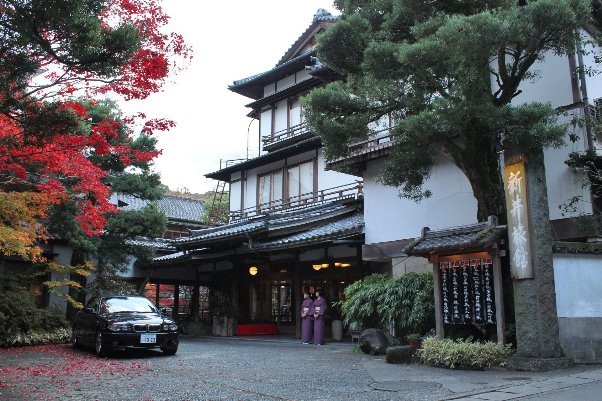 Entrance of Arai Ryokan in Izu, Shizuoka Prefecture、Japan.